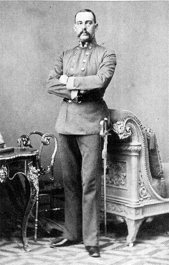 Archduke Leopold Ludwig of Austria (1823-1898), Lieutenant Field Marshal, Viceadmiral, 1864-1868 Supreme Commander of the Imperial Navy